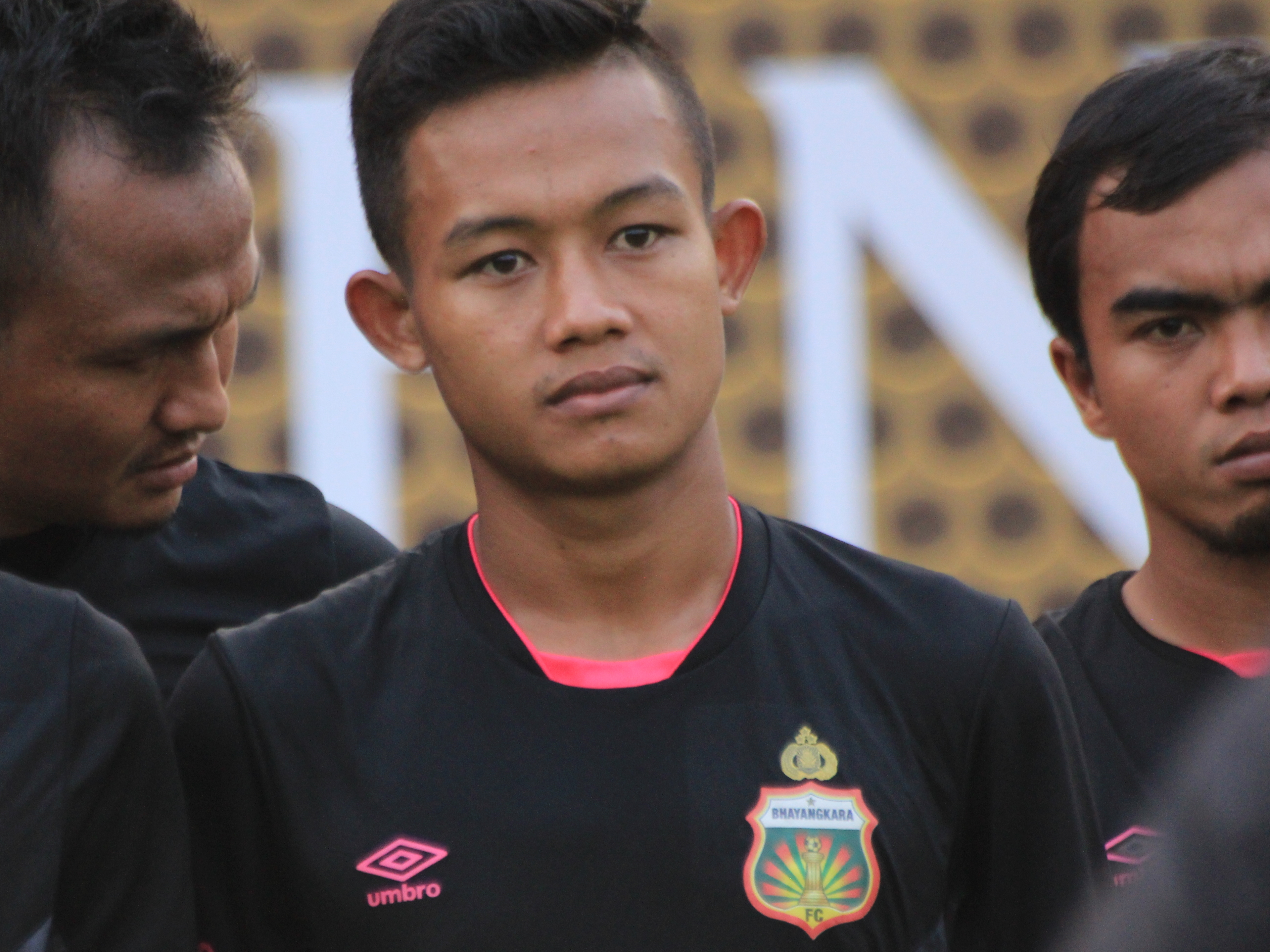 Sani Rizki Fauzi